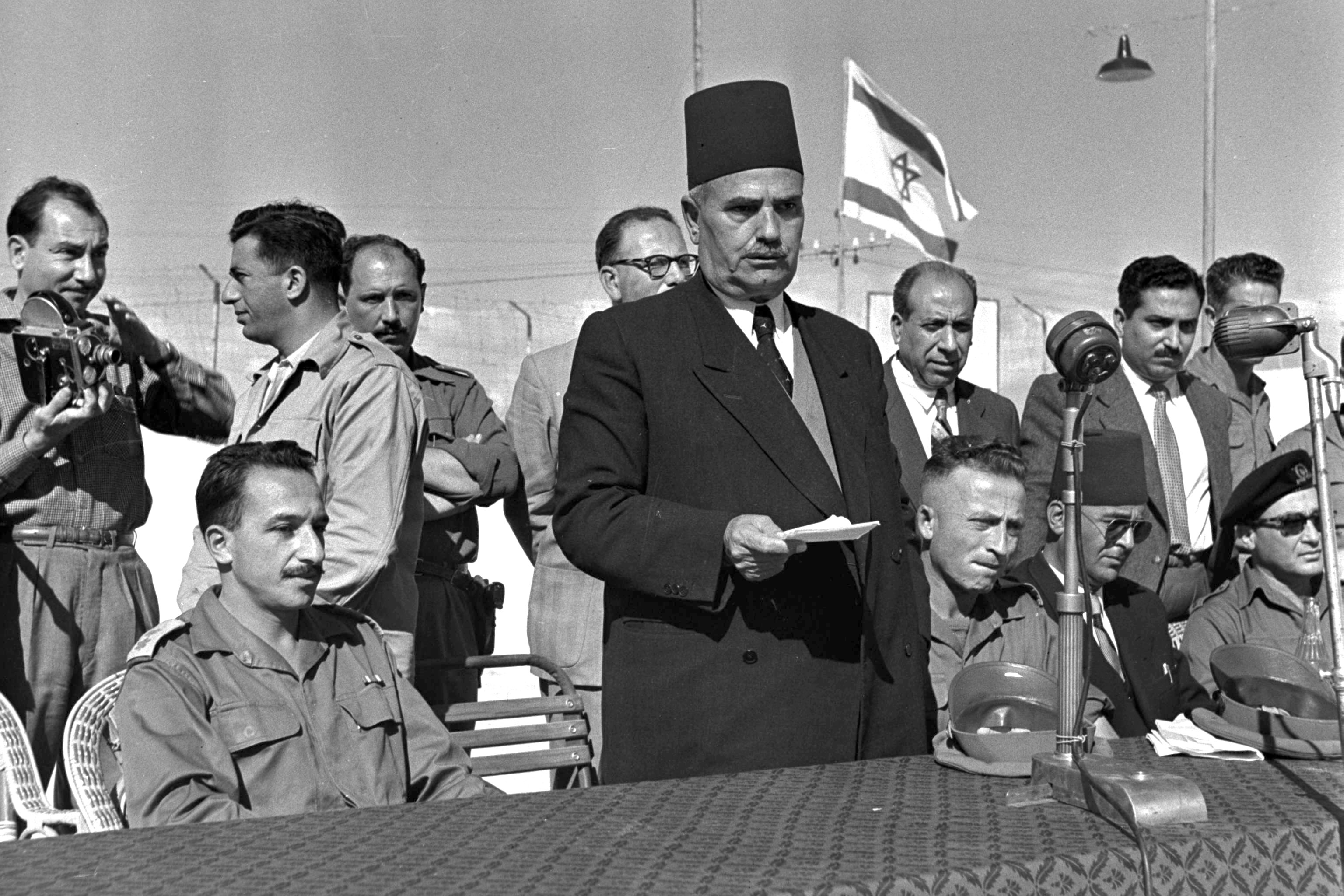 The newly appointed mayor of gaza rushdi shawa speaking at the inauguration ceremony of the gaza municipal council. (26/11/1956) מושל עזה החדש, ראשדי שאווה, נואם בטקס חנוכת מועצת עזה